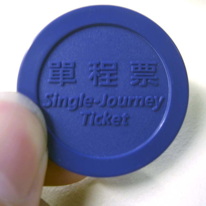 Single-Journey Ticket release on 2007.05.01 [1]